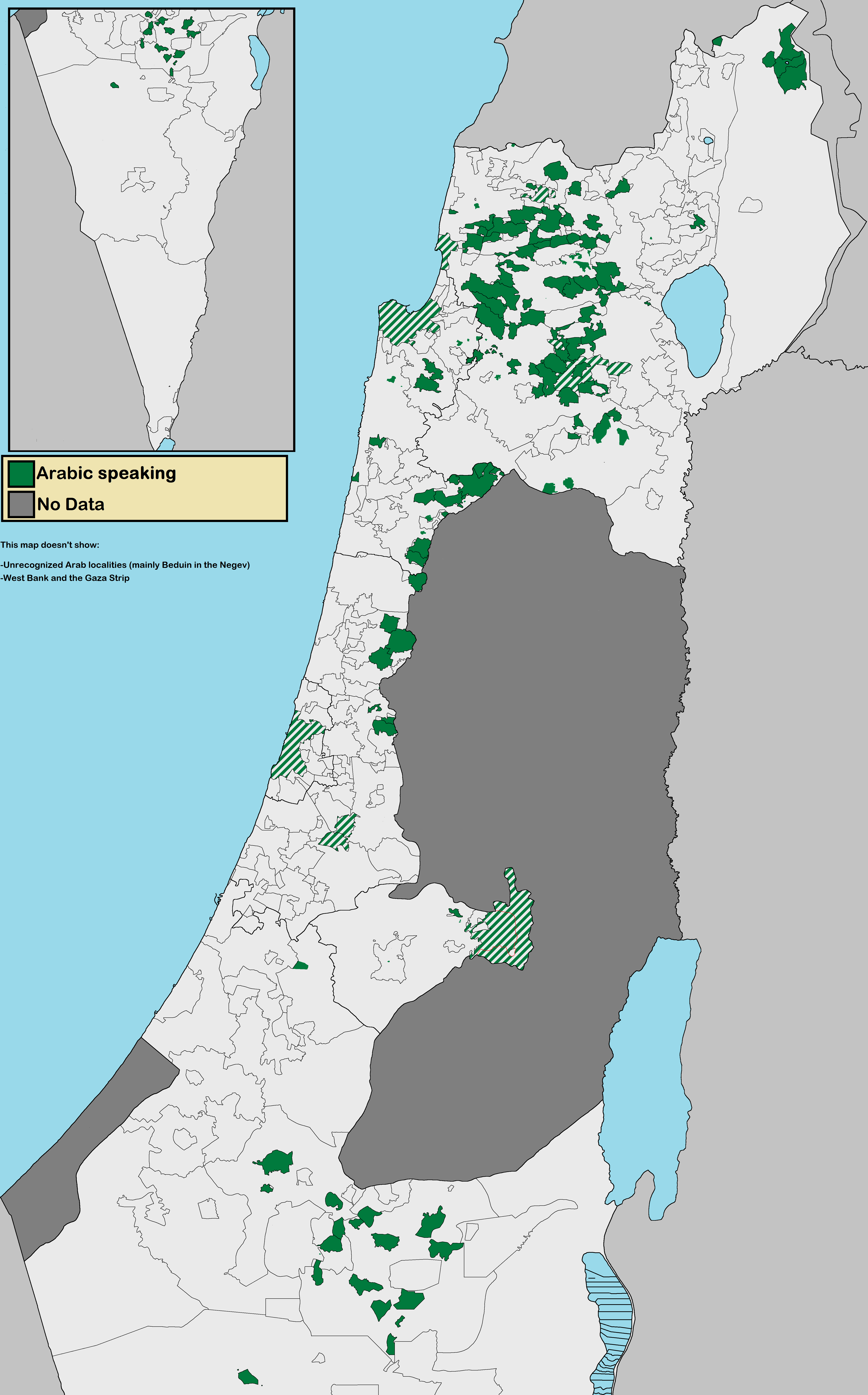 This is a map of all the Arabic speaking localities in the State of Israel (including East Jerusalem and the Golan Heights). Striped represent officially mixed cities (by law, at least 2% Arabs in a Jewish majority city). Note: Jerusalem is officially a mixed city but the map shows the boundries of Arab and Jewish neighborhoods.